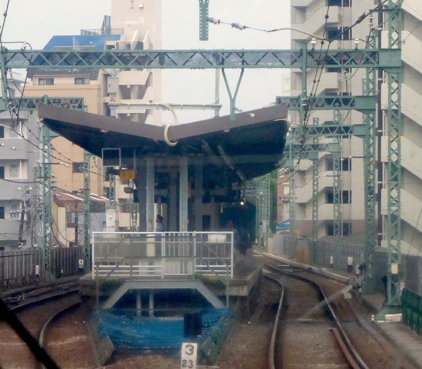 Tobe Station platform (戸部駅のホーム)